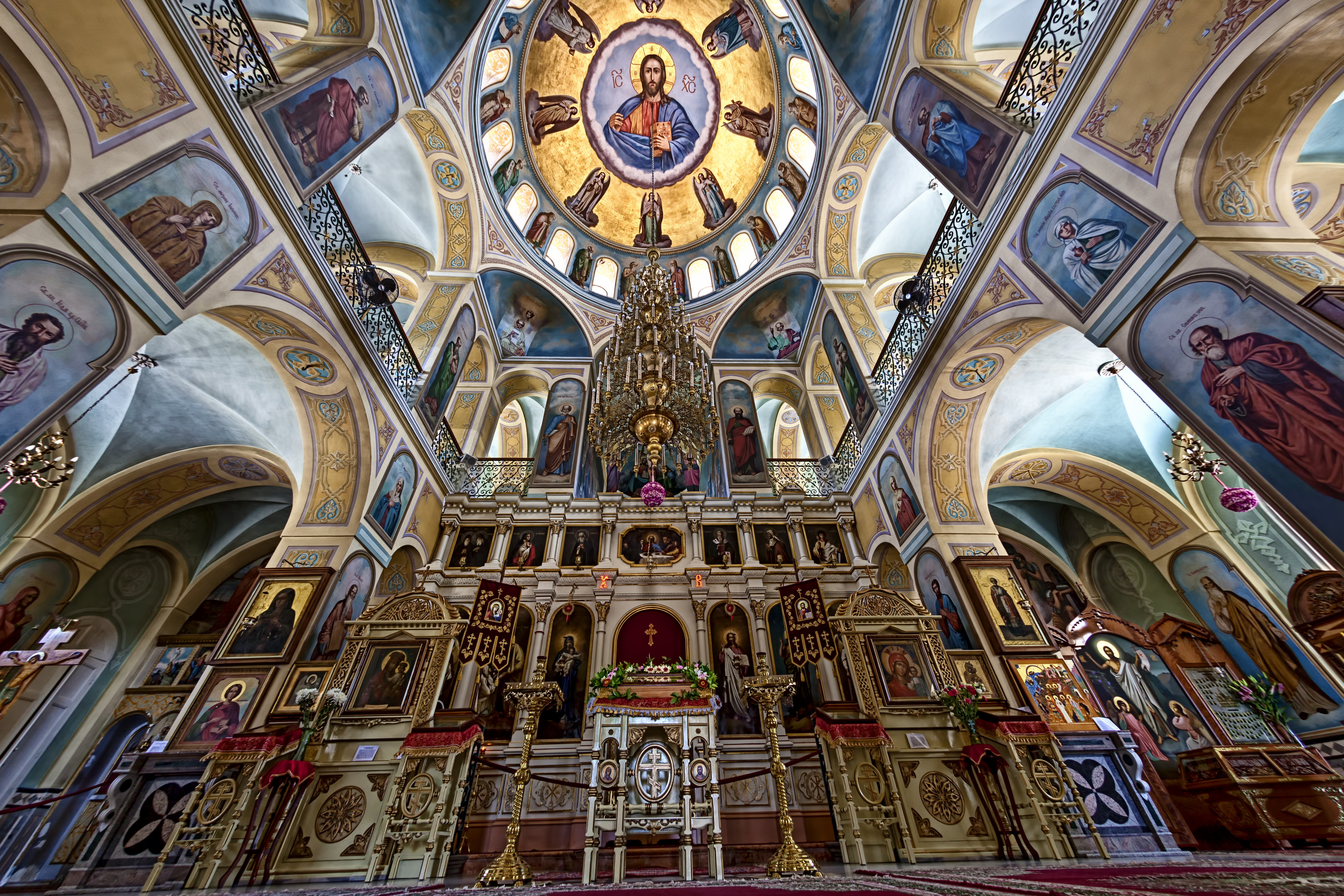 Interior of the Saint Peter's Russian Orthodox Church in the Abu Kabir neighborhood of Tel Aviv–Jaffa, Israel (not to be confused with identically named church in Old Jaffa)